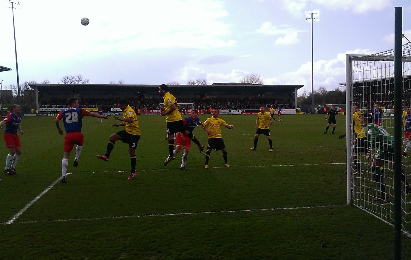 Burton Albion F.C. vs Gillingham F.C. this afternoon. Took the picture myself Summary Burton Albion F.C. vs Gillingham F.C. this afternoon. Took the picture myself